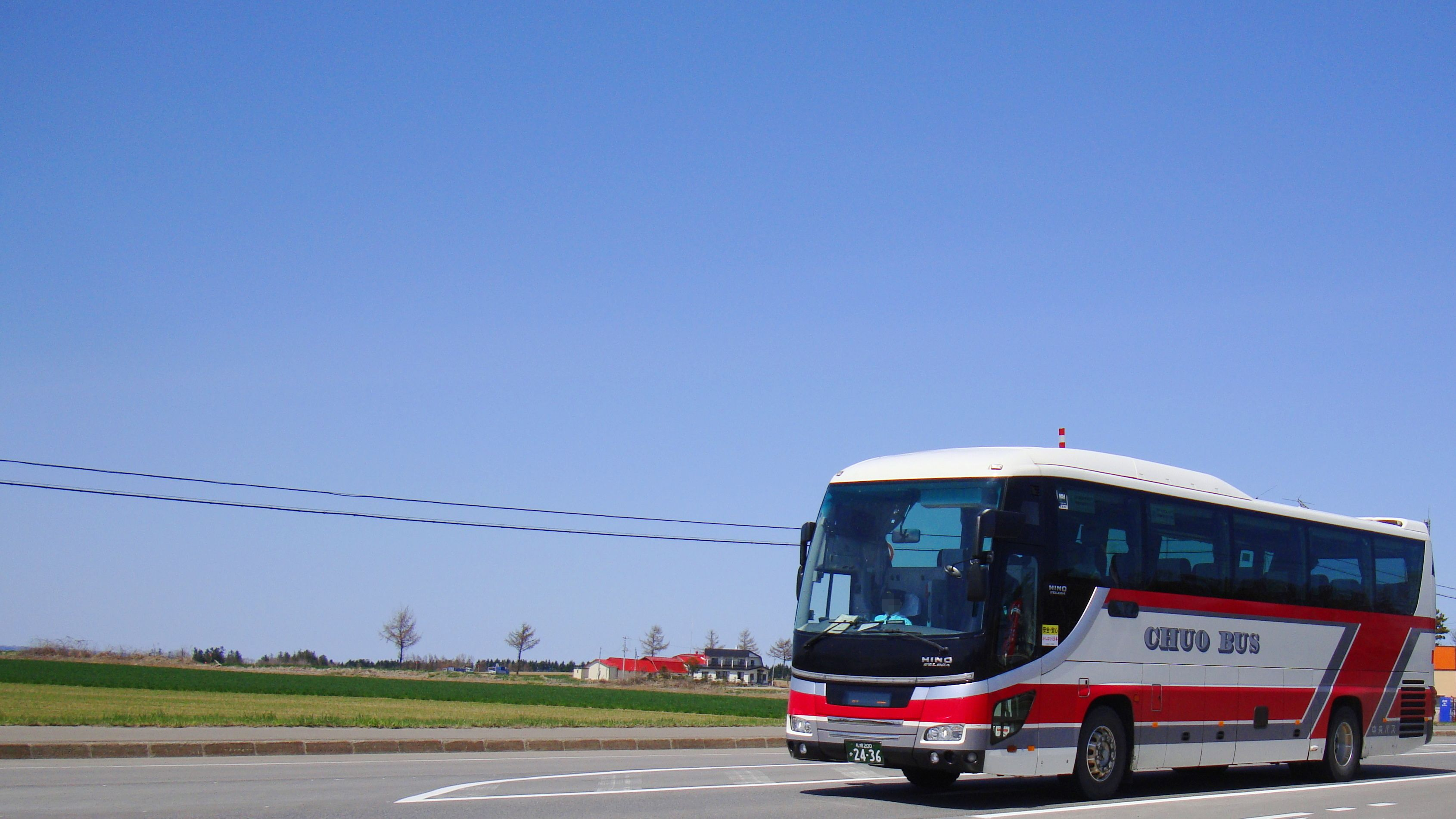 "Dreamint Okhotsk gō" Abashiri to Sapporo